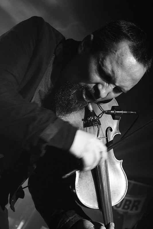 Jelonek (Polish violinist with band)